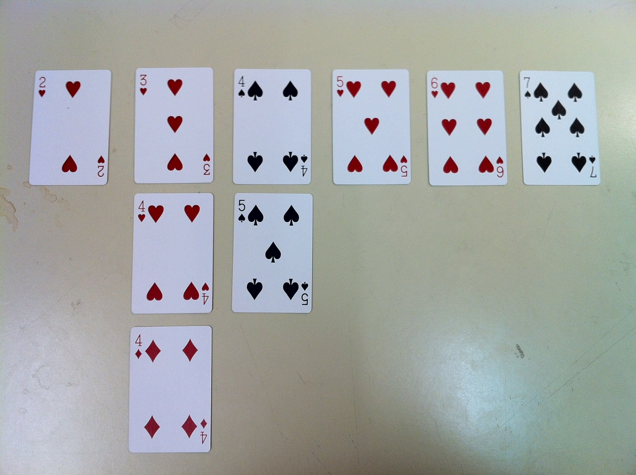 This photo shows cards being used for a collective induction task.